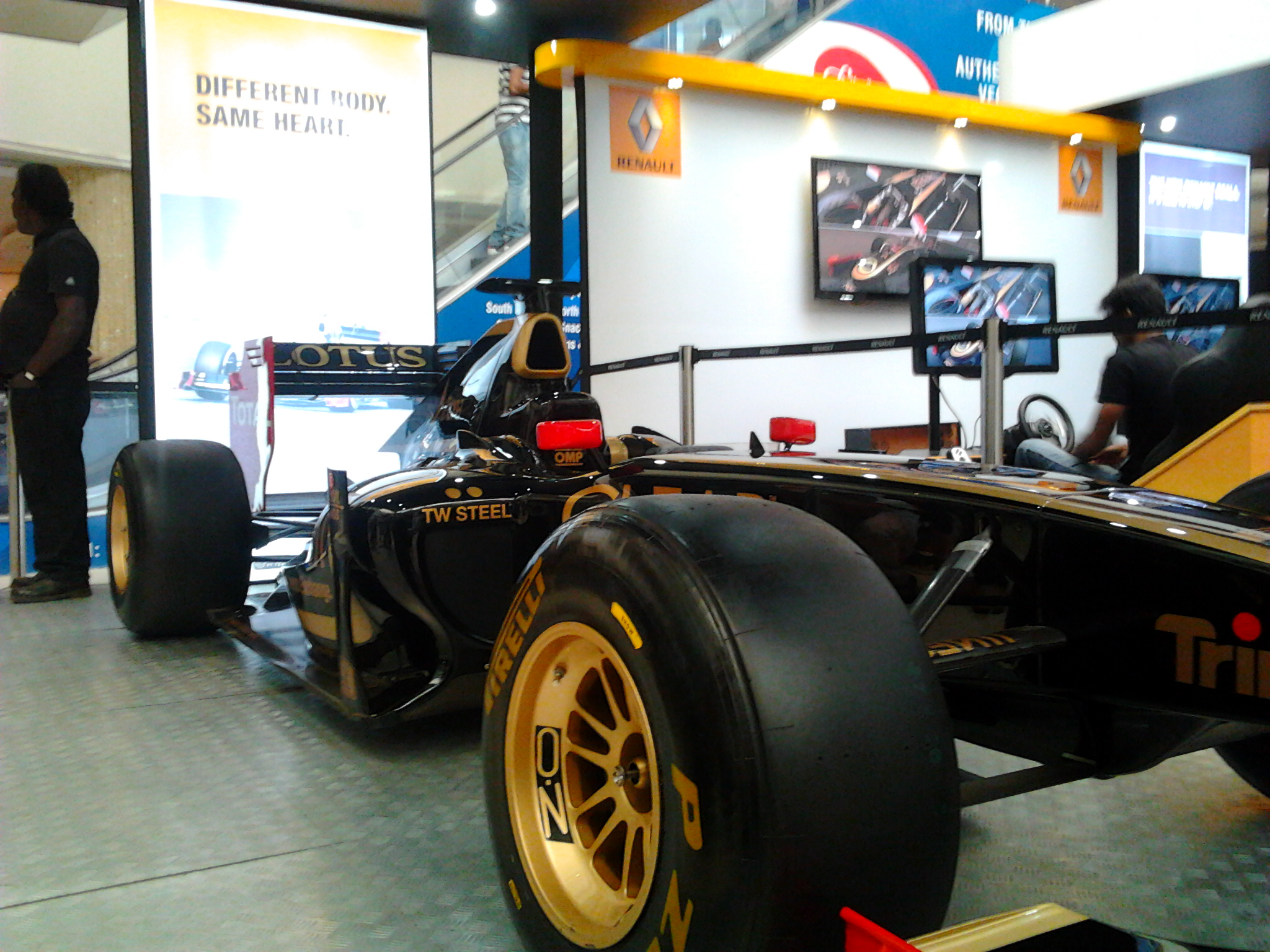 Lotus-Renault F1 car in display at the Express Avenue Mall on December 8, 2012 in Chennai, India.